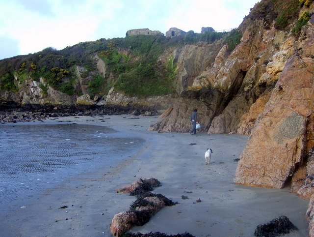 Low tide below the fort When the tide is at its lowest it is possible to walk from the harbour at Lower Fishguard along the sand to the little bay below the fort and then up a precipitous path to the cliff top. At other times this area is underwater.